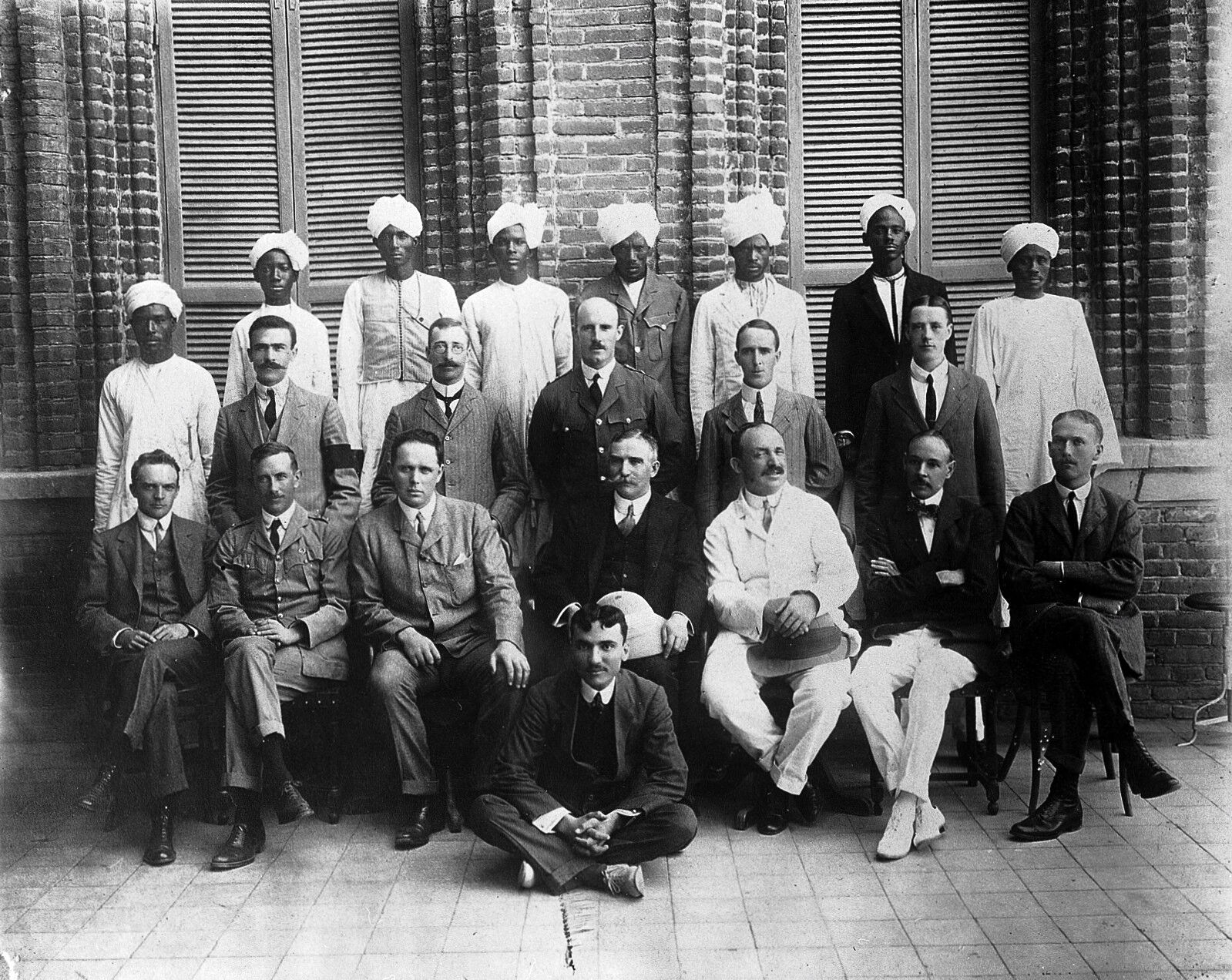 Staff at the Wellcome Tropical Research Laboratory, Khartoum. Henry Wellcome is in the centre of the picture (pith helmet on lap). Andrew Balfour is seated on Wellcome’s right hand side FRONT ROW (from left to right): Dr J Thompson (Senior Assistant Chemist)- Captain Fry RAMC (Protozoologist)-Andew Balfour(Director of Laboratories)- Mr Henry Wellcome - Mr James Currie (Director of Education Department ,Sudan Government) William Beam (Research Chemist)- Mr Harold King (Entomologist). MIDDLE ROW: Mr JJ Vitale (Senior Clerk)-Mr J Goodson (Assistant Chemist) - Captain Dr Archibald RAMC ( Pathologist)- Mr George Buchanan (Senior Laboratory Assistant)- Mr Alexander Marshall (Senior Laboratory Assistant). BACK ROW: Laboratory Attendants: Mohamed Ibrahim, Abdullahi Nurin, Omar Kuwais, Bashari Mohamed, Mahdi Sharaf El-Din, Said Yunis, Adam Farah El-Dar, Ali Nimir FRONT: Nicola Effendi Hakim, (Senior Clerk) .